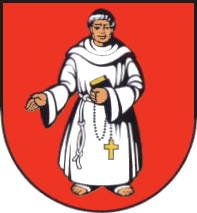 Coat of Arms of Münchenbernsdorf